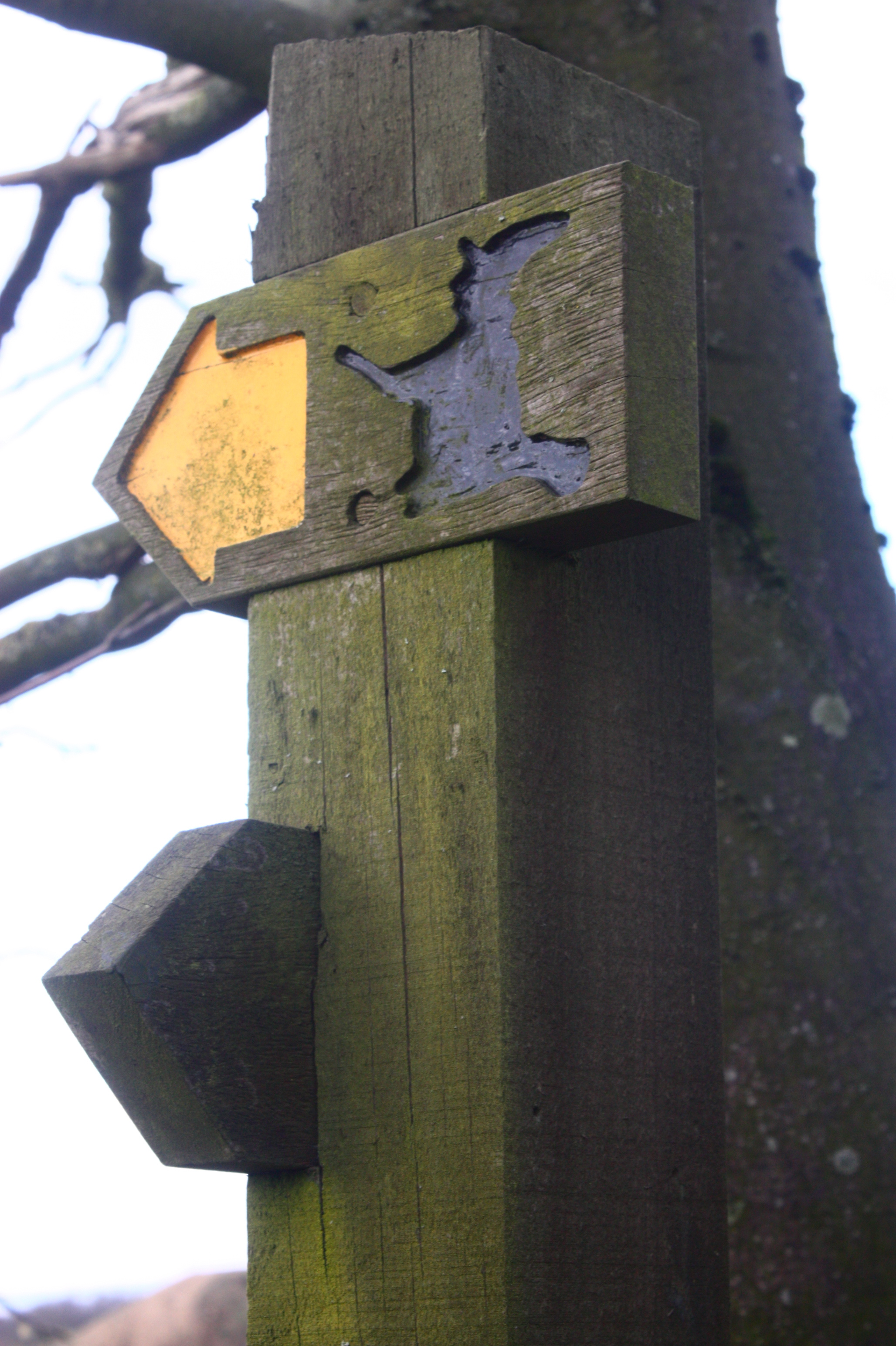 Pendle Way Waymark showing witch logo. Lancashire, United Kingdom.